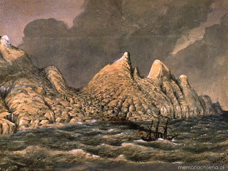 Isla Desolación, Estrecho de Magallanes, 1843